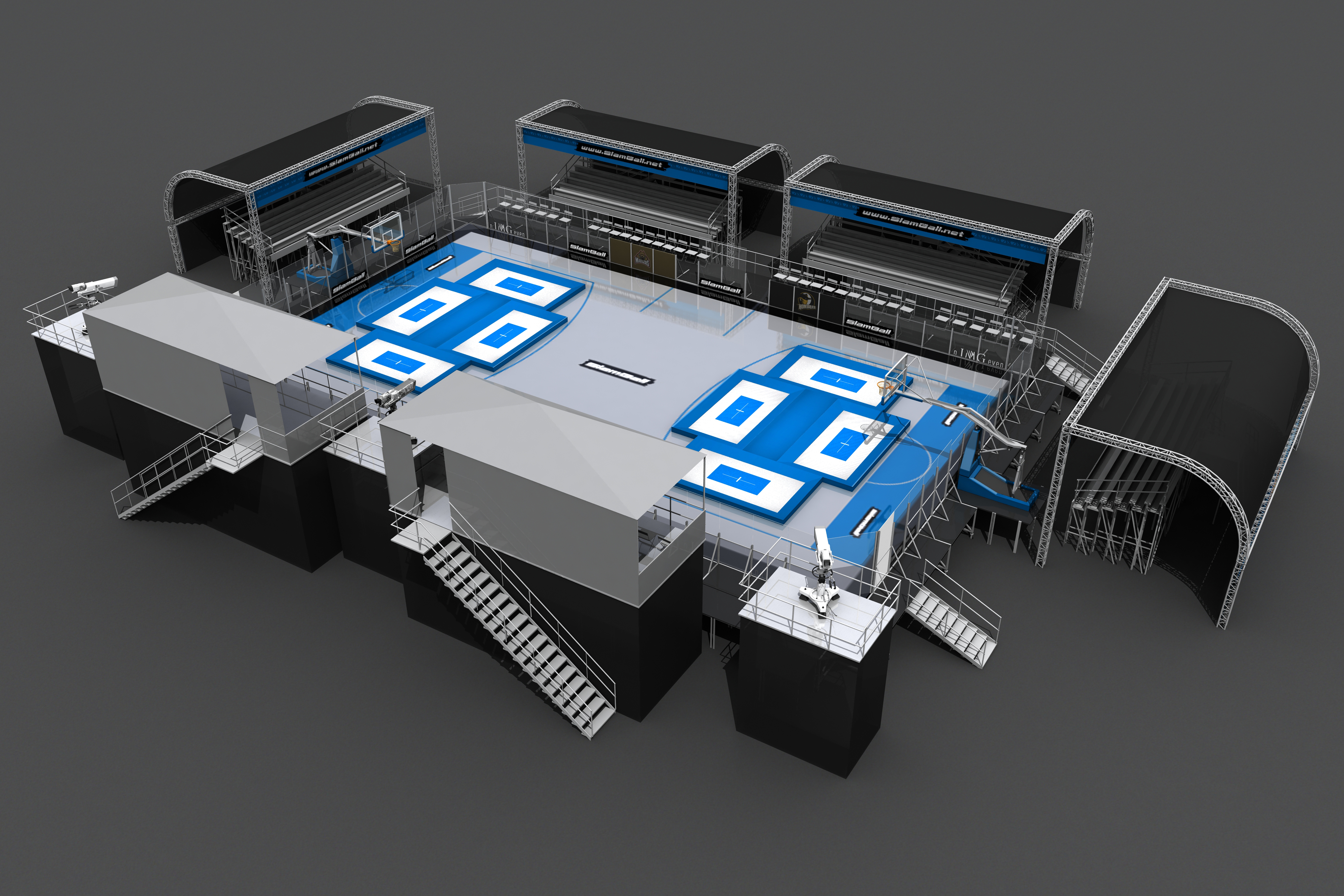 New photo of a slamball court